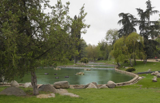 Aluche Parq.